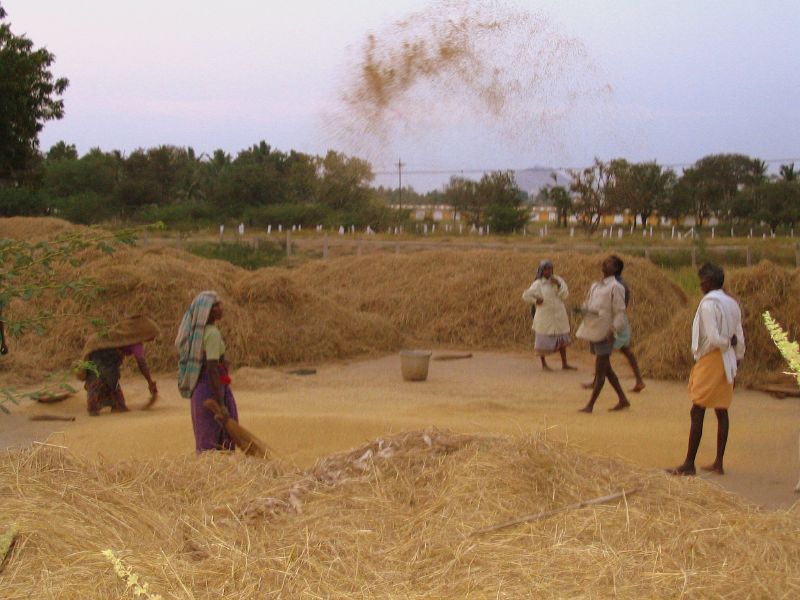 Threshing/winnowing people in a Dalit village near Madurai, Tamil Nadu, India.